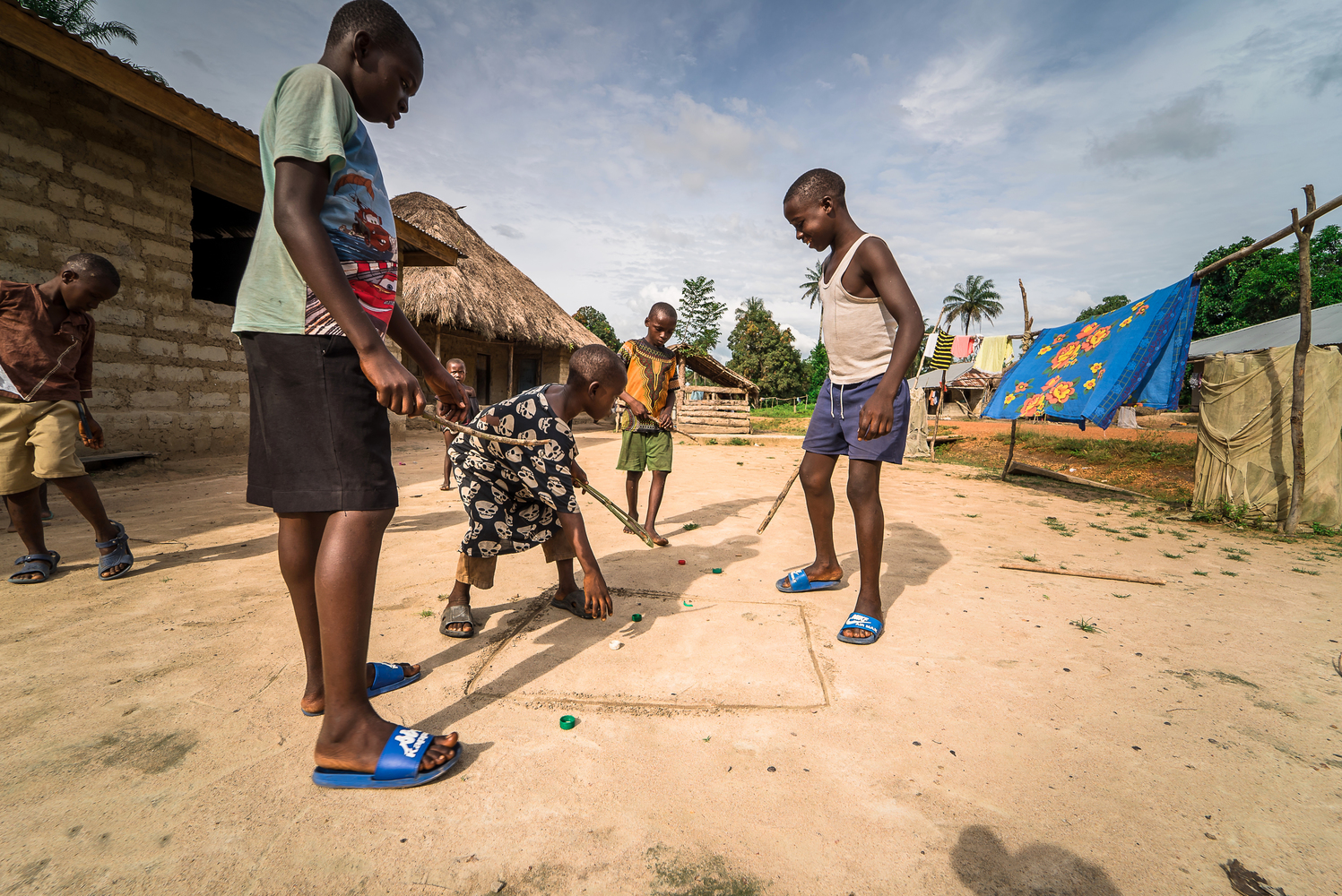 Not sure how the game is played, but it involves a stick, bottle caps and drawing in the sand :) This is an image with the theme "Play" from: Sierra Leone